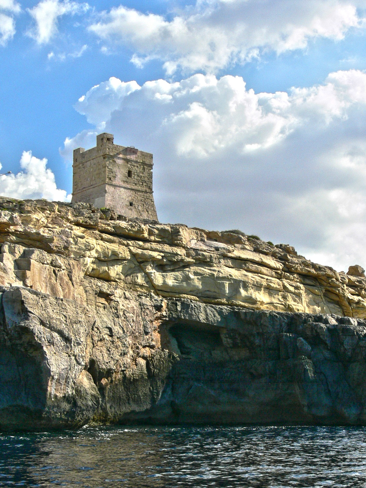 The tower of grand master Jean Paul Lascaris-Castellar at Wied iz-Zurrieq, Qrendi, Malta